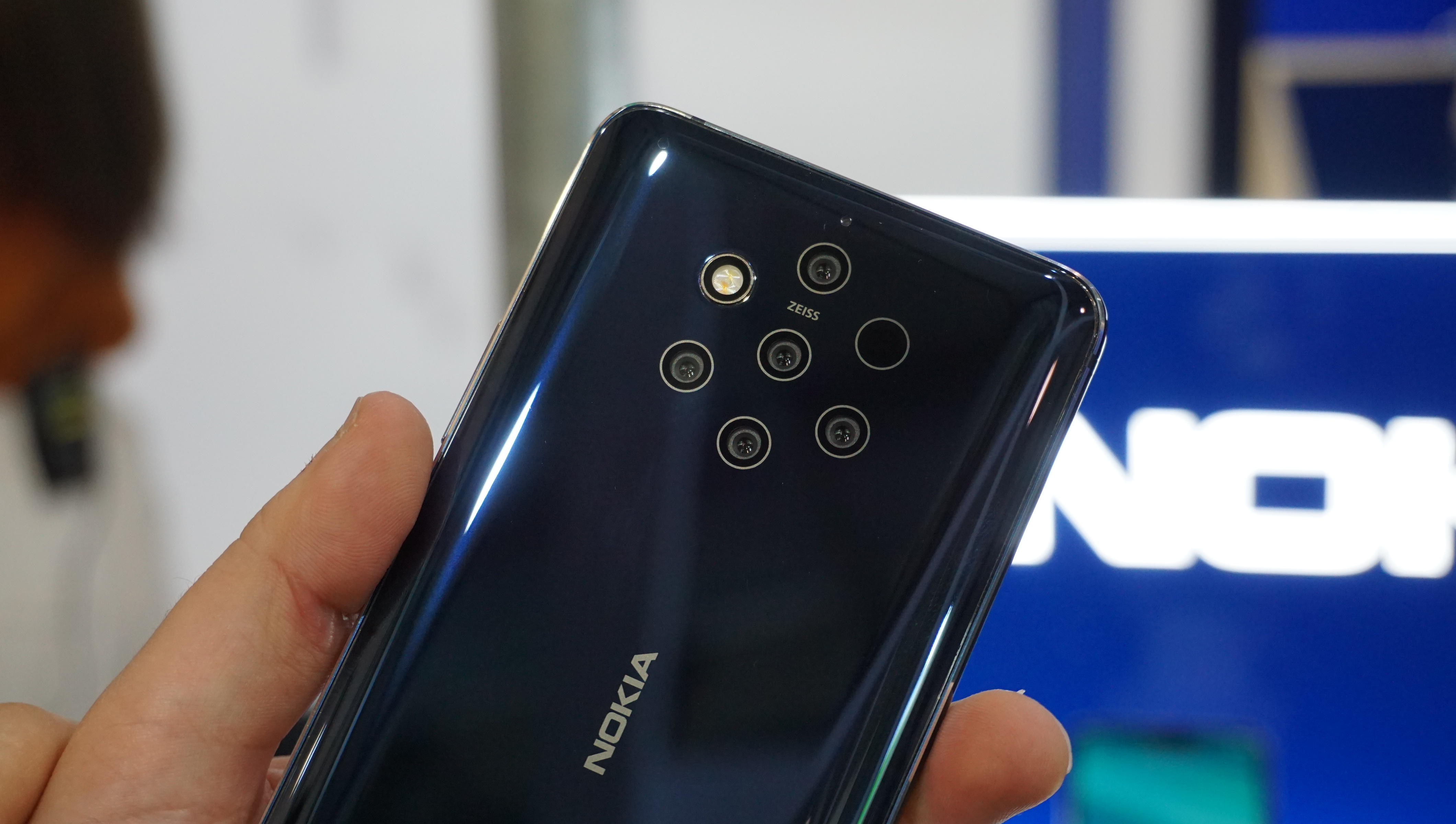 Nokia 9 Pureview camera setup